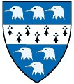 Original coat of arms granted to the Spencer family 1504.